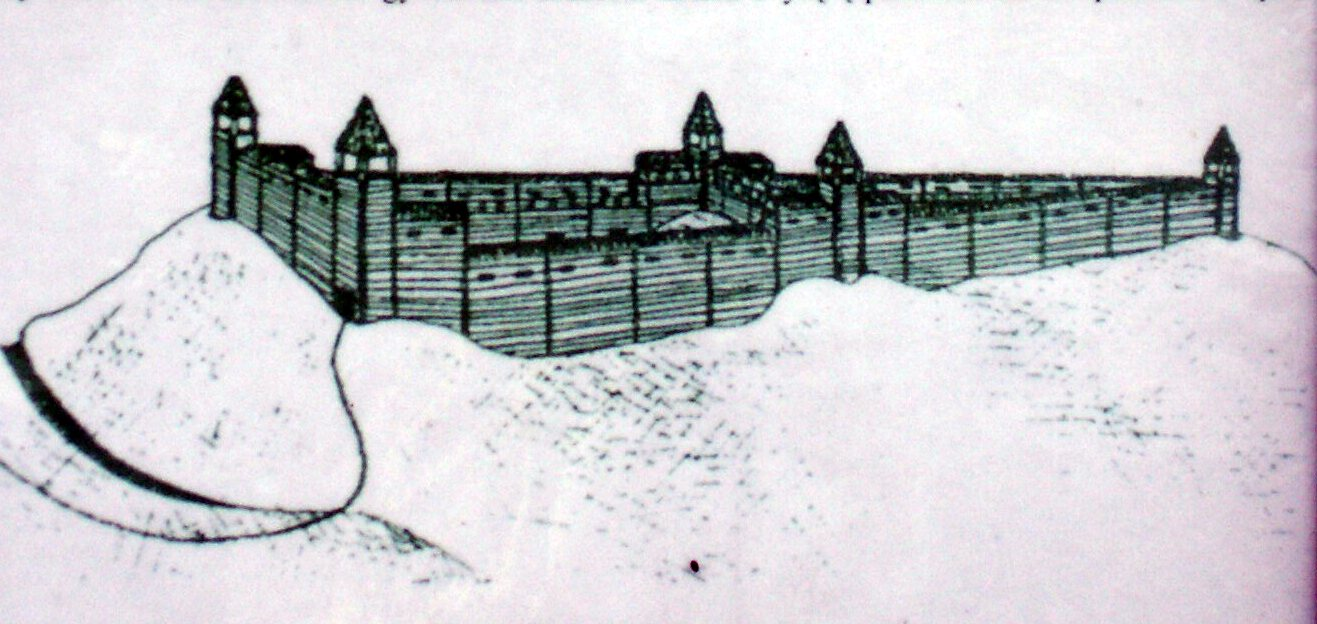 Bernotų hillfort reconstruction, Vilnius district, Lithuania